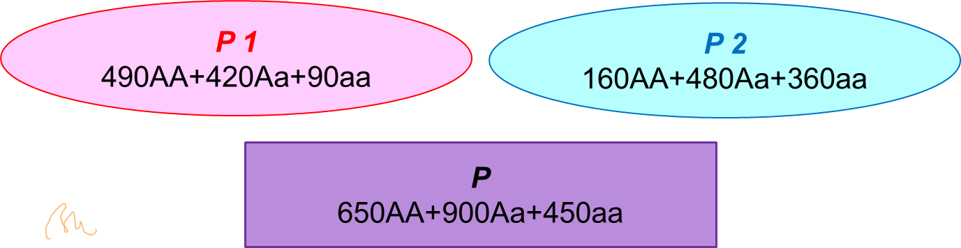 The two balanced populations after merging will form an unbalanced population.